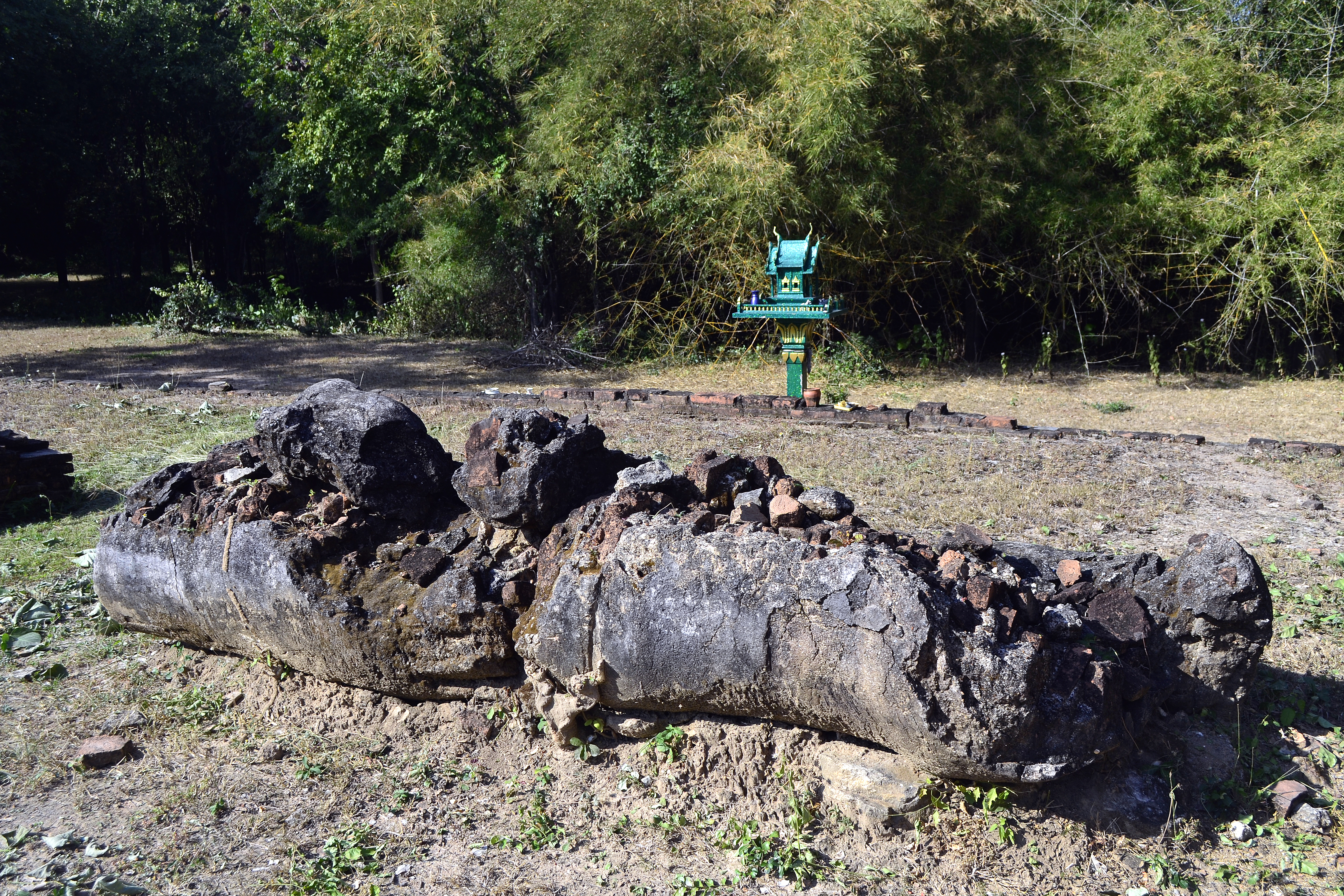 Wat Tao Thuriang (วัด เตาทุเรียง), Sukhothai historical park